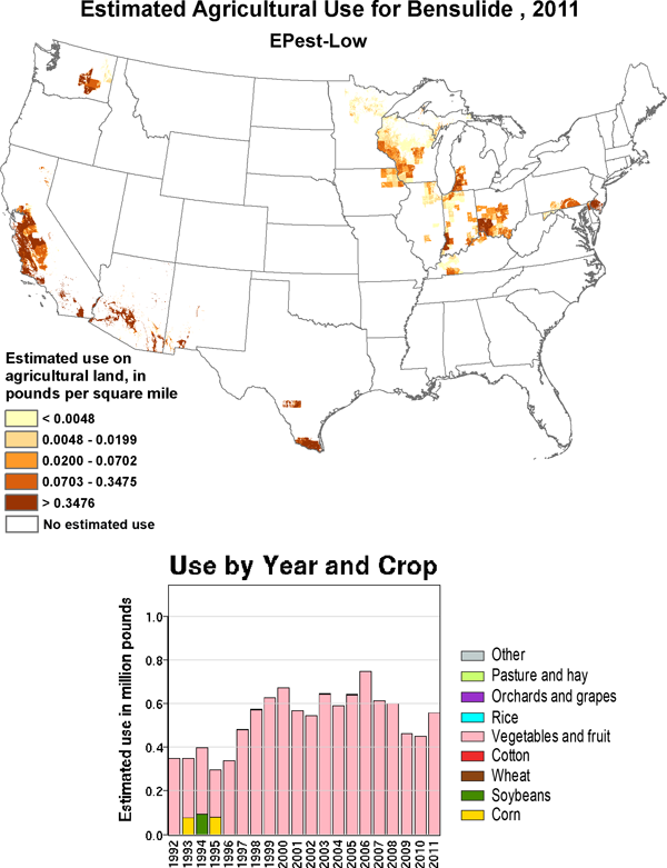 Bensulide map of use, USA, 2011 (estimated)